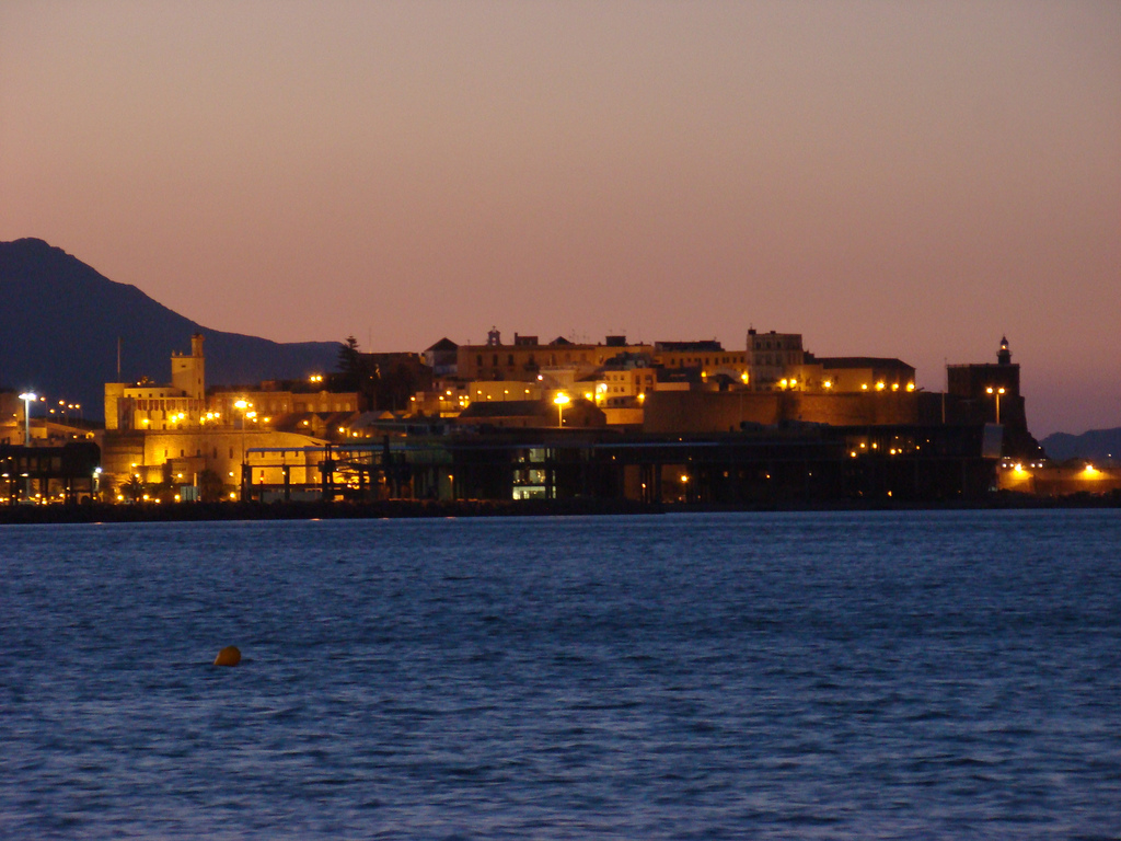 Melilla, in Spain.